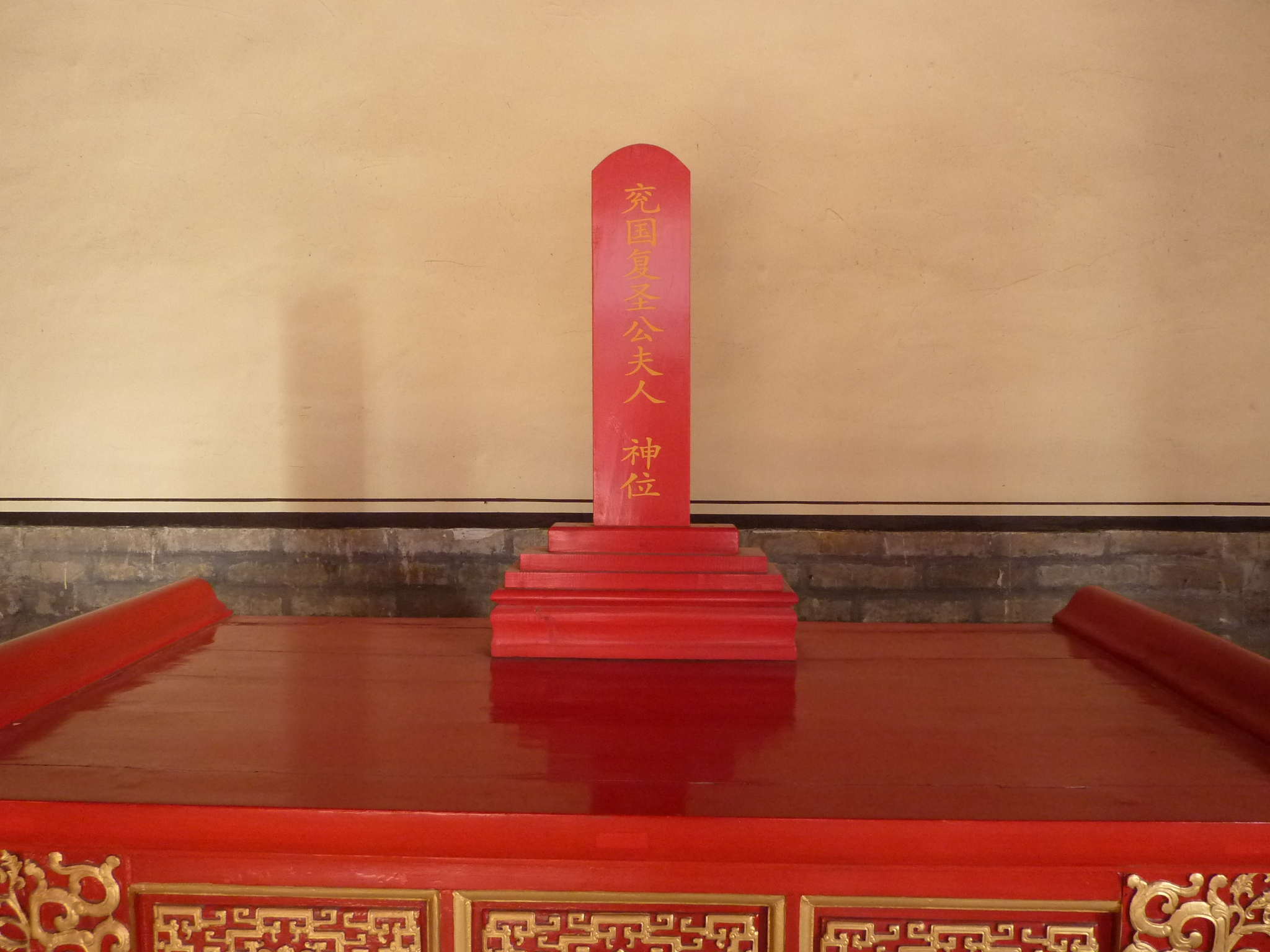 A tablet in honor of the Continuator of the Sage, the Duke of Yanguo (Yanguo Fusheng Gong), i.e. presumably Yan Hui himself, in the Hall of Fusheng, the main sanctuary of Yan Miao